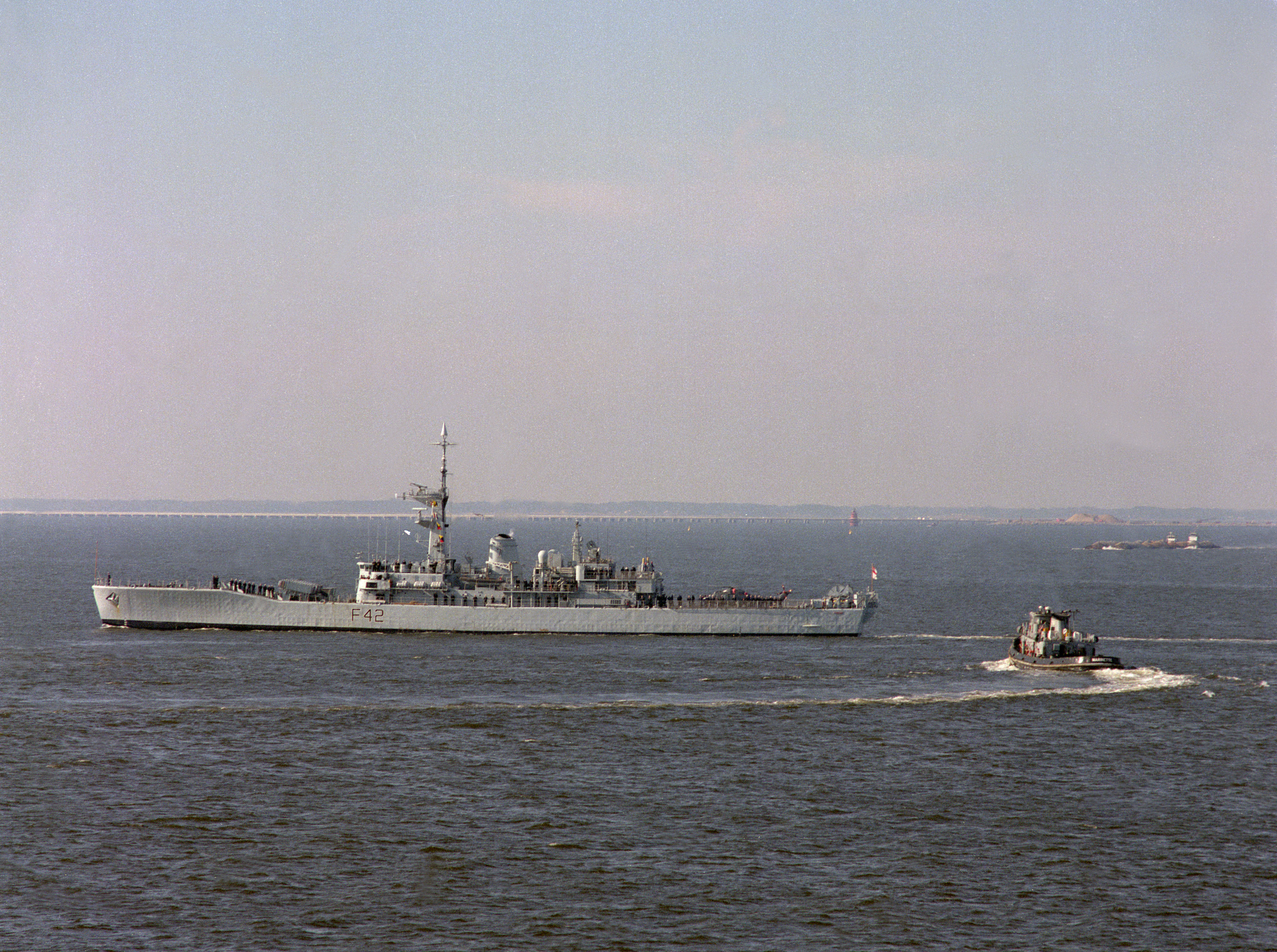 The large U.S Navy harbour tug USS Marinette (YTB-791) comes about to escort the British Leander-class frigate HMS Phoebe (F42) into Naval Station, Norfolk, Virginia (USA), on 19 January 1990. Note the Westland Lynx helicopter aft.